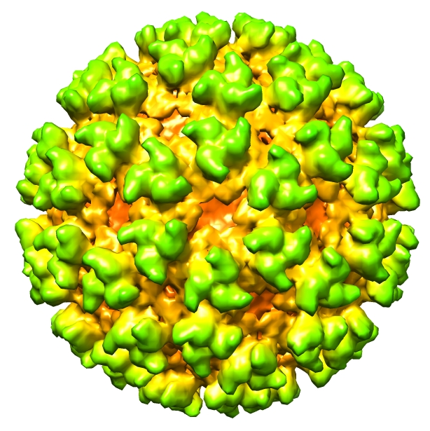 Cryo-electron microscopy reconstruction of Semliki Forest virus at 9A resolution. From EMD-1015